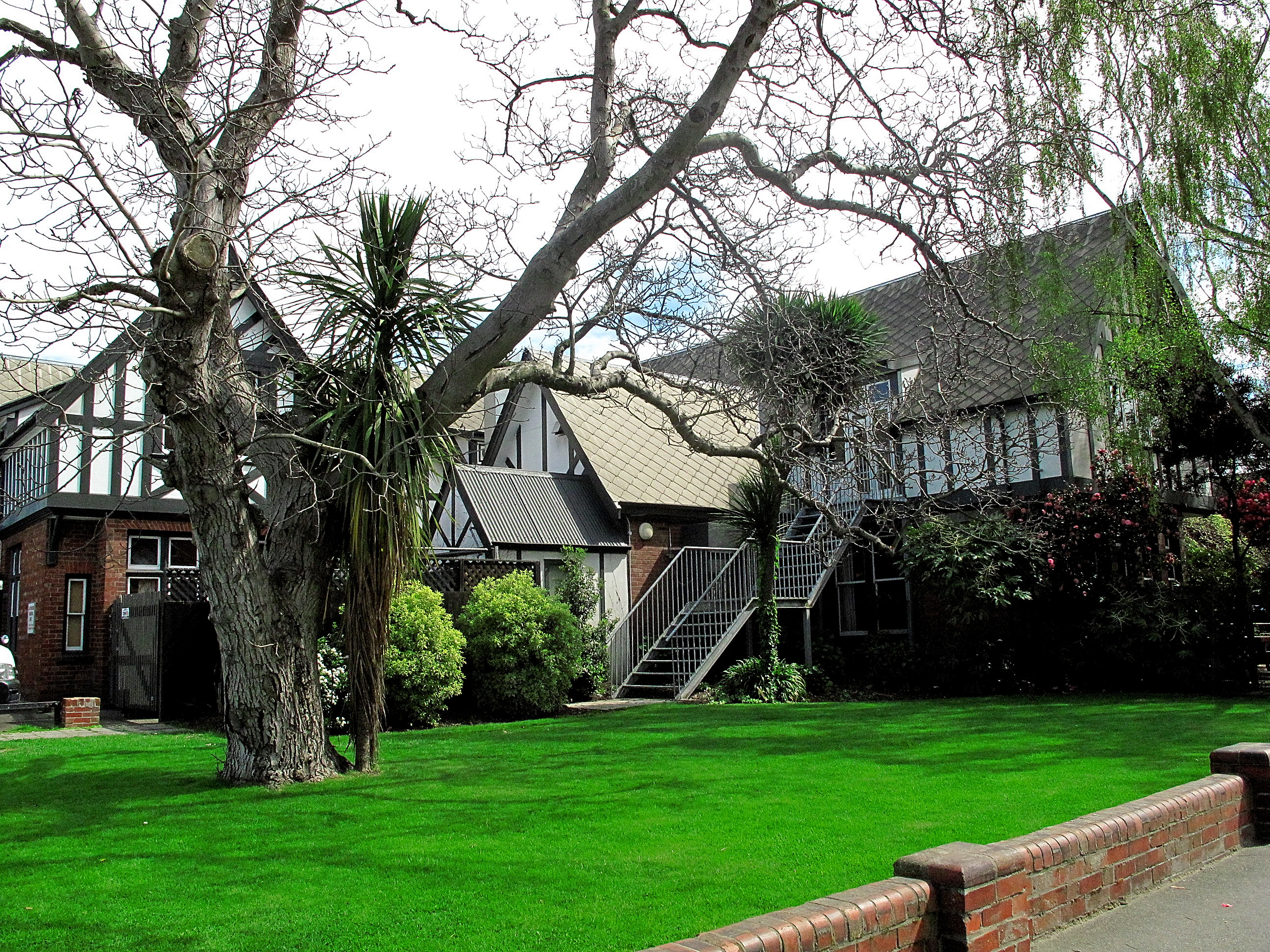 Dux de Lux Restaurant on Hereford Street in Christchurch (Fri, 8 October 2010).